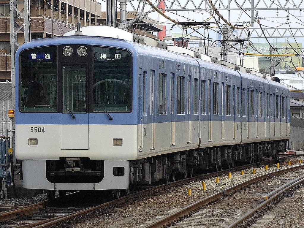 Hanshin 5500 series EMU set 5503 at Amagasaki Station